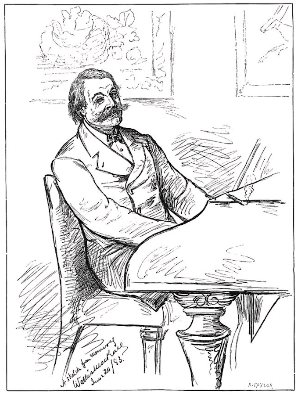 The sketch of portrait of late Henry Sambrooke Leigh (1837-1883), a poet, actor and dramatist, sitting at the grand piano, made in 1883